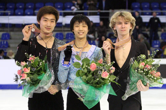 Song Nan (2), Yuzuru Hanyu (1), Artur Gachinski (3) at the 2010 World Junior Figure Skating Championships